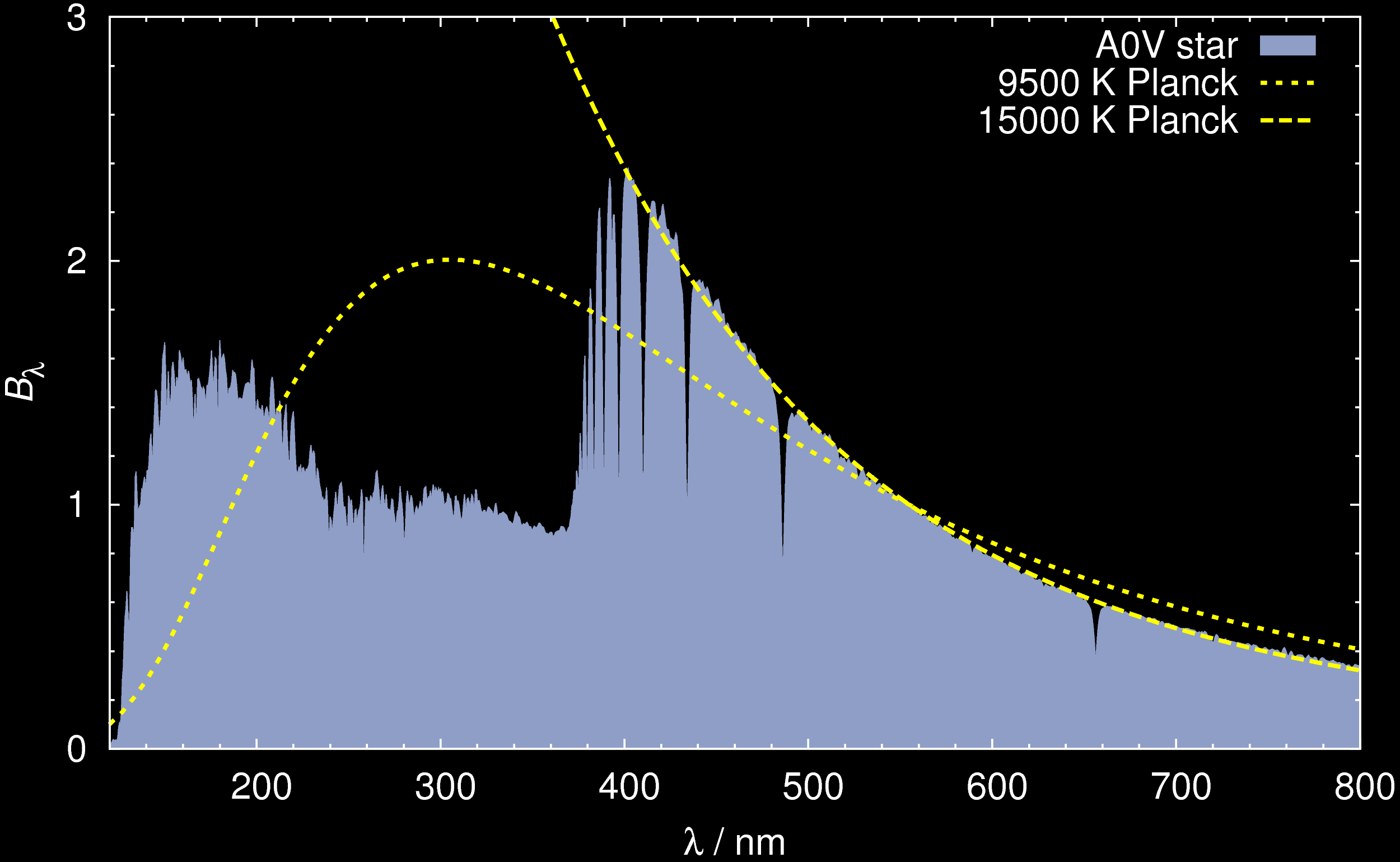 The spectral power distribution of a typical A0V star (like e.g. Vega) from the HILIB stellar spectra library in comparison with a Planckian blackbody spectrum of the same effective temperature of 9500 K (dotted line) and visual color temperature of 15000 K (dashed line). Intensity B is in arbitrary units, and the curves are normalised to match at lambda = 555 nm. Both temperatures differ mainly due to the Balmer absoption bands in the ultraviolet region. This image has been inspired by figure 6.7 in the book "Der neue Kosmos" by A. Unsöld and B. Baschek, Springer Berlin, Heidelberg, New York, 6th edition 1999. ISBN 3-540-64165-3. Created with gnuplot.